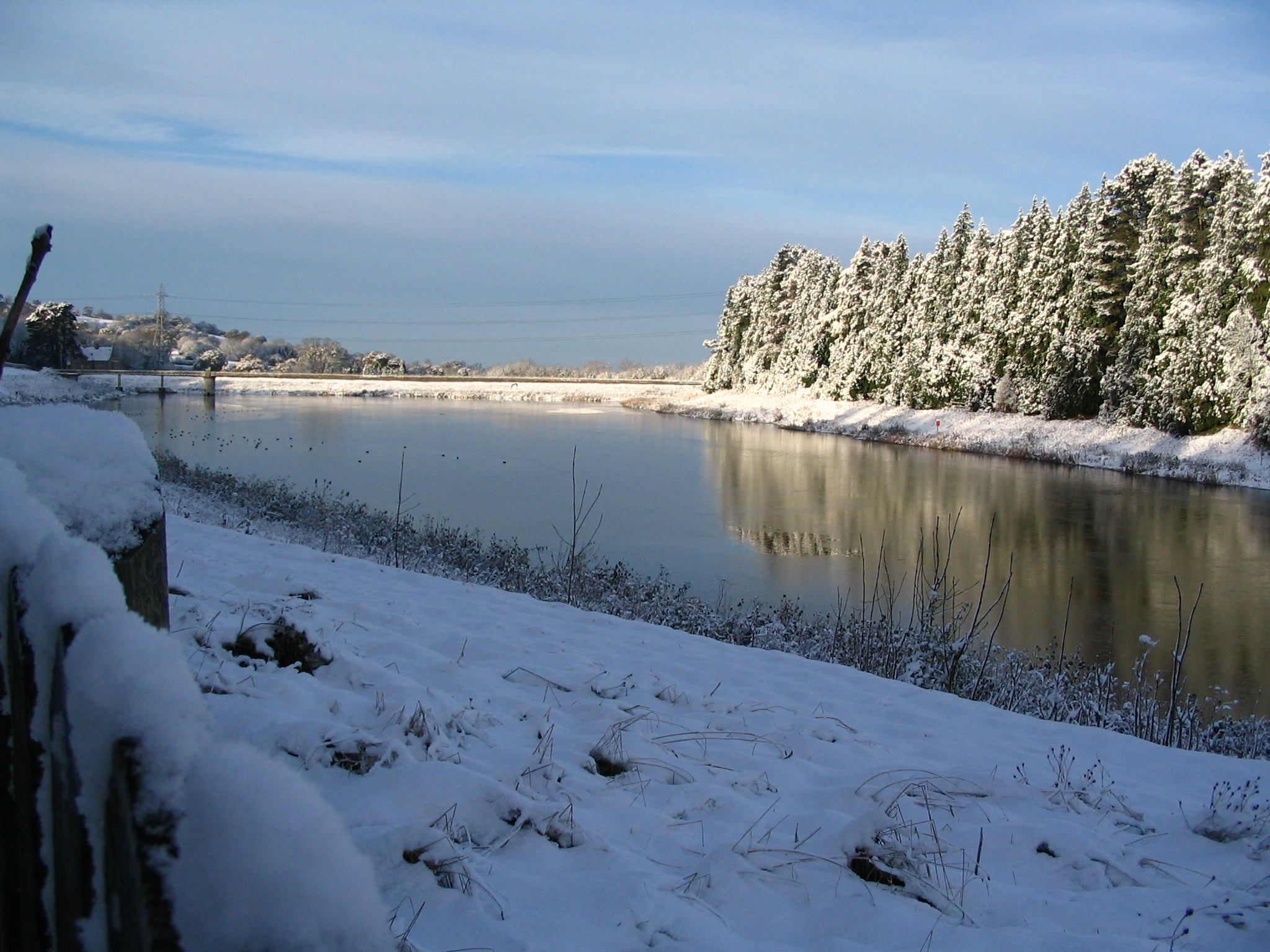 Dowdewell reservoir towards the dam end in winter 2005 with the woodland to the right of the square. View from A40 to Cheltenham direction. Nature reserve, formerly under lease to the Gloucestershire Wildlife Trust.